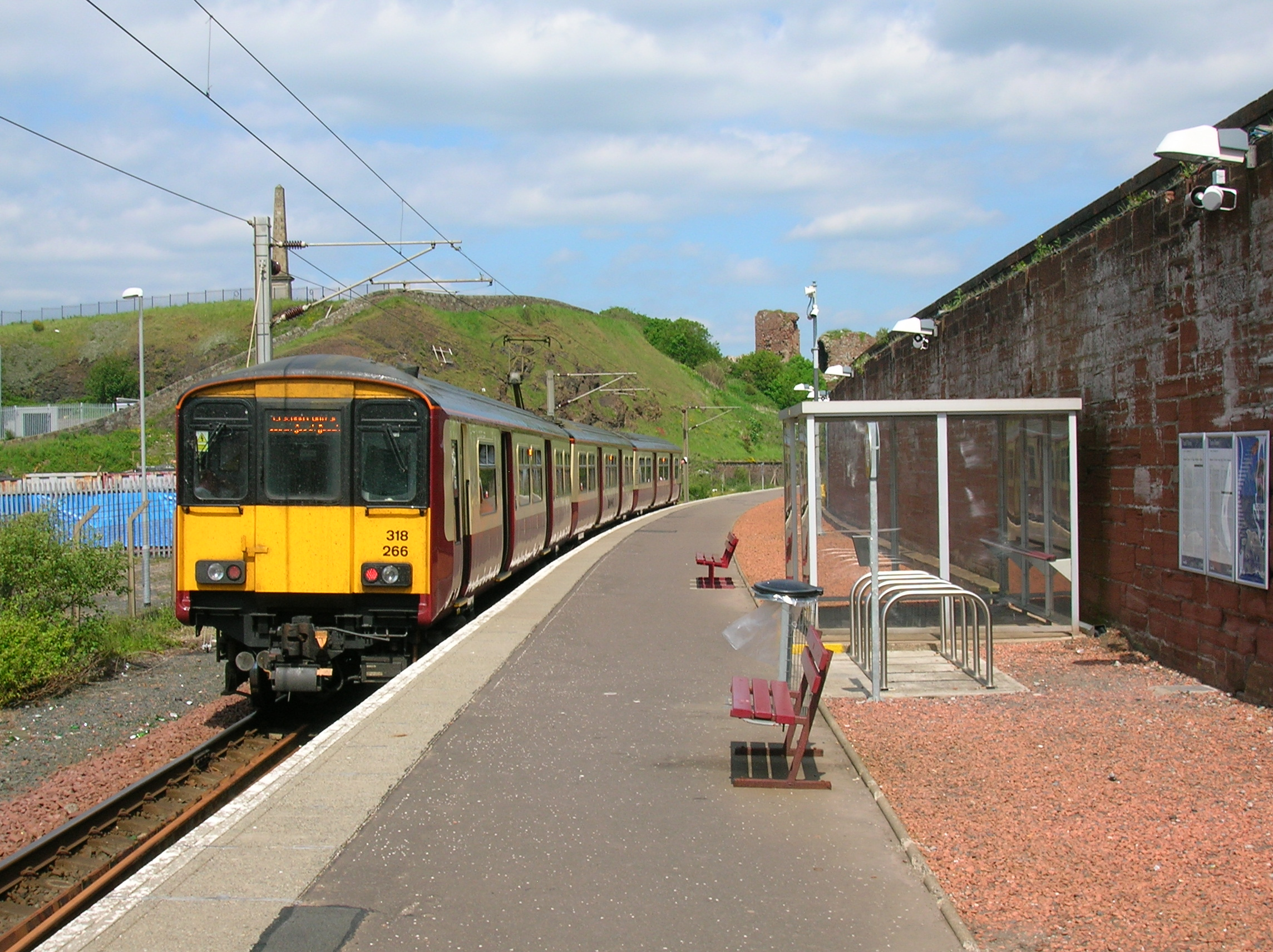 Ardrossan Town station with a train for Glasgow Central. North Ayrshire. Scotland.